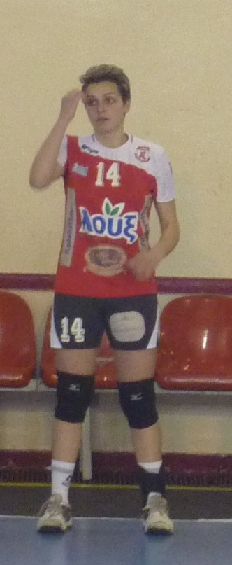 Greek hanball player Lena Mournou.